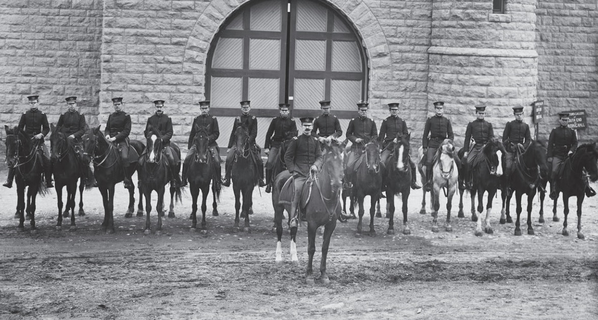 Walter Cowen Short and Cavalry School staff, 1905